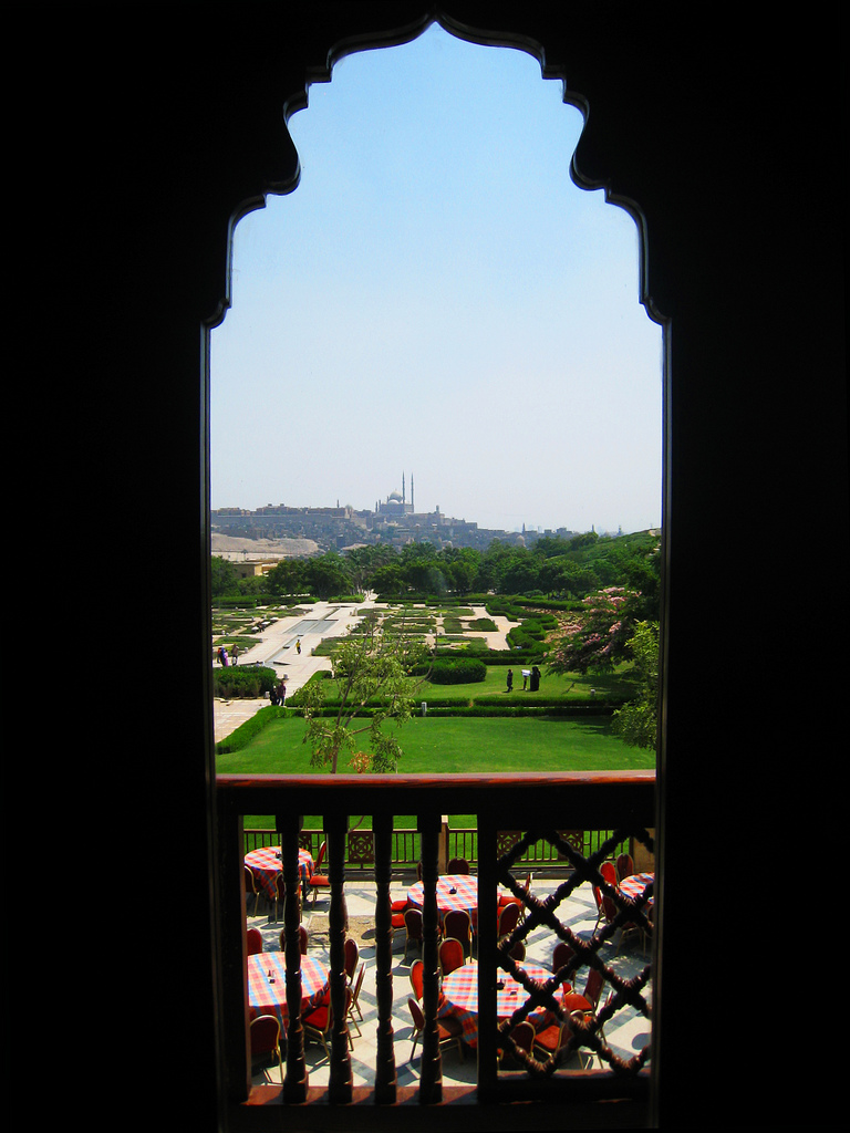 Al-Azhar Park, Cairo.